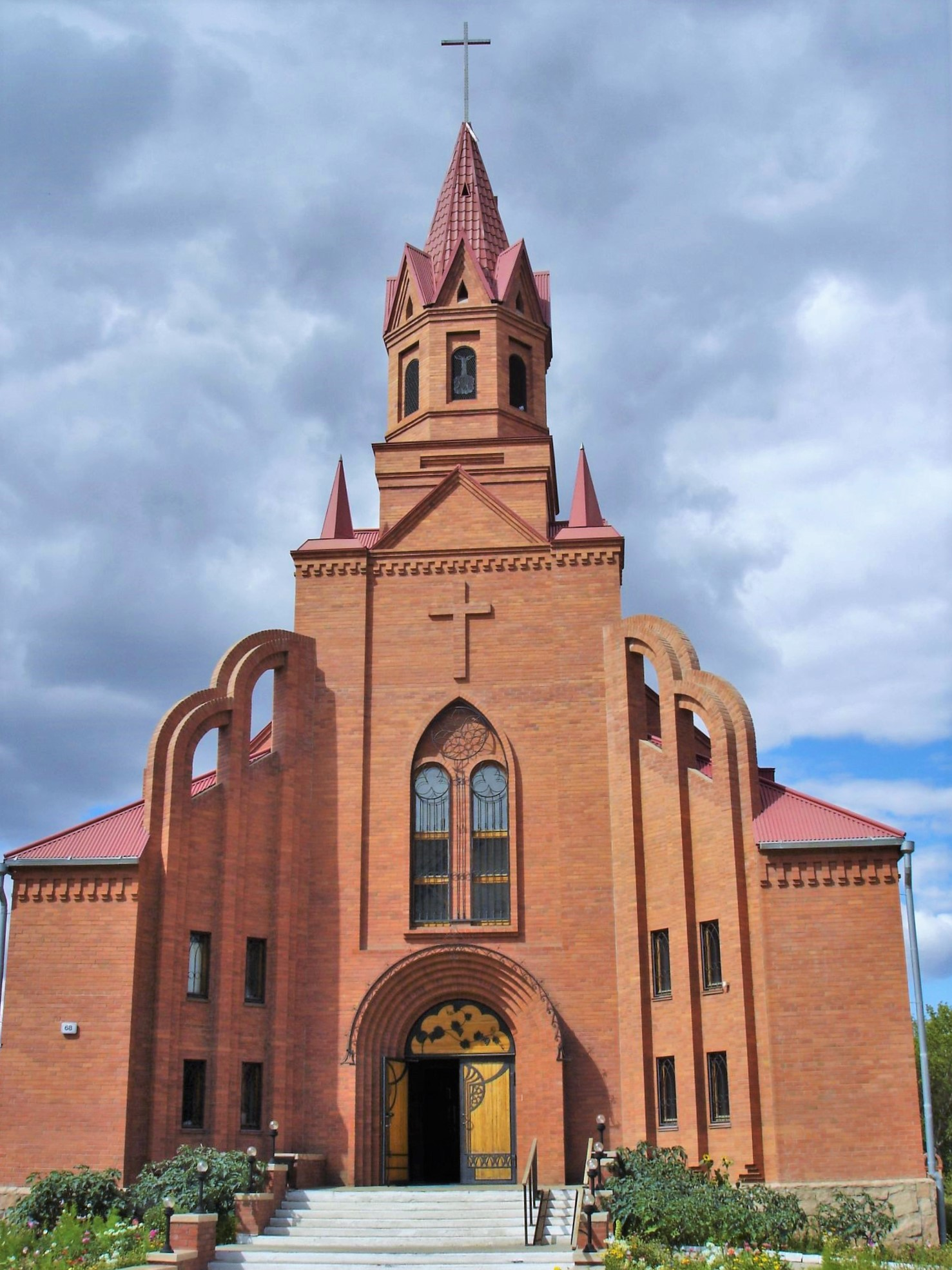 Catholic church of St.Thereza of Jesus in Pavlodar, Kazakhstan